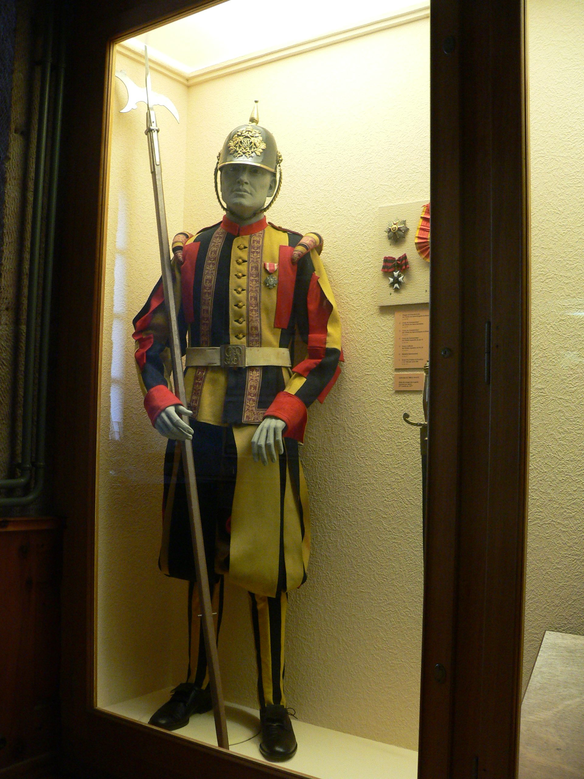 Swiss guard of the Vaticano, Morges museum, Switzerland